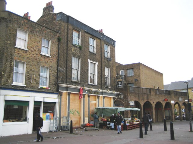 Bromley by Bow: Former Rose & Crown public house This former Taylor Walker house in Stroudley Walk was evidently still open in 2006, but is now closed.